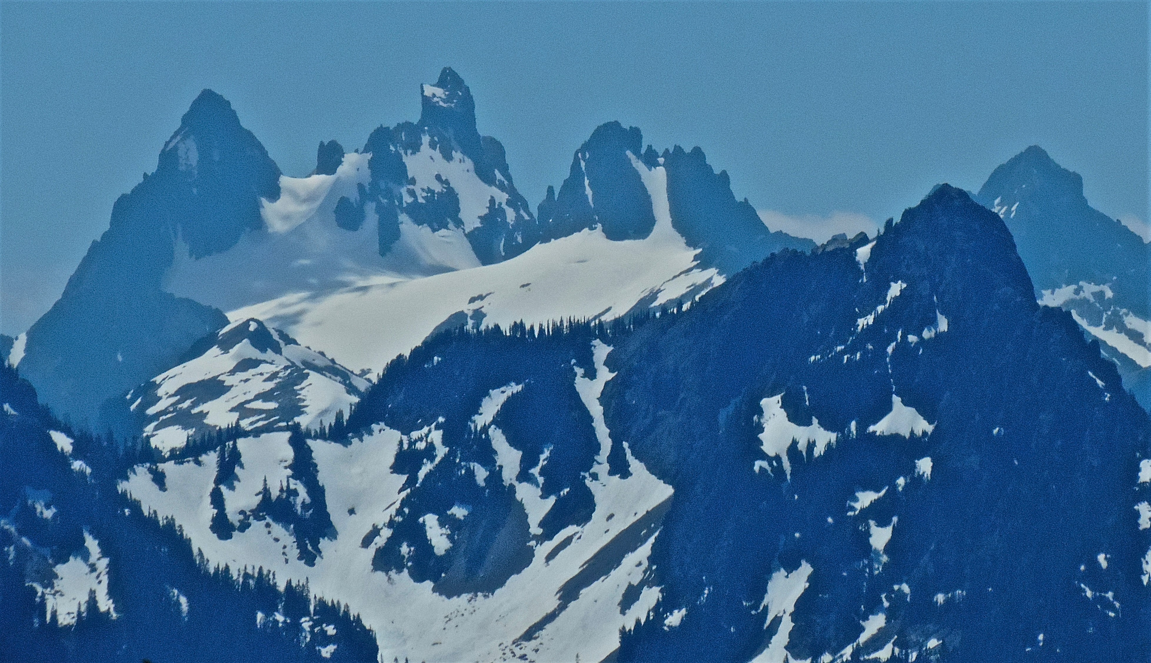 Chimney Rock from Beckler